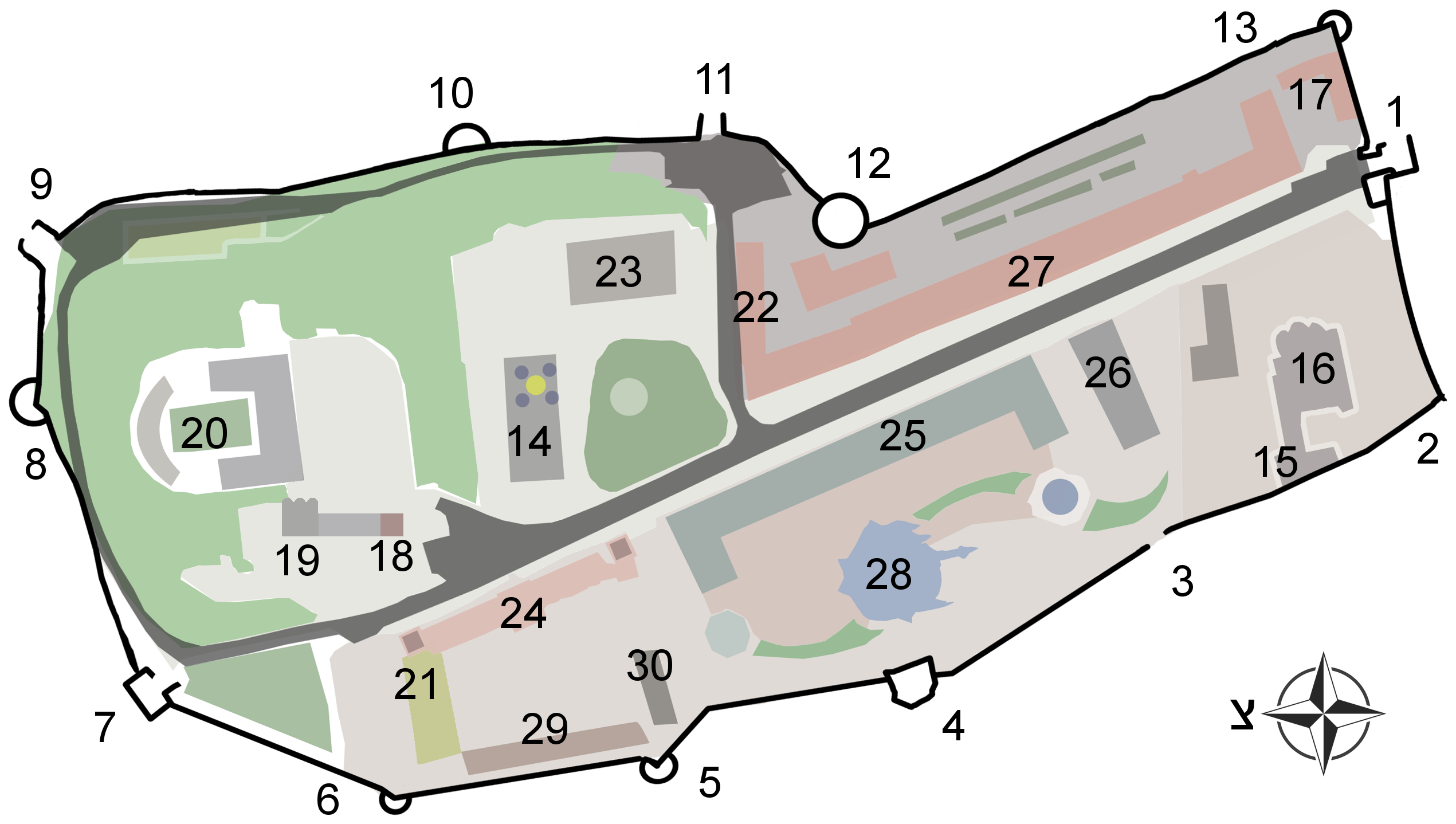 Map of the Kazan Kremlin